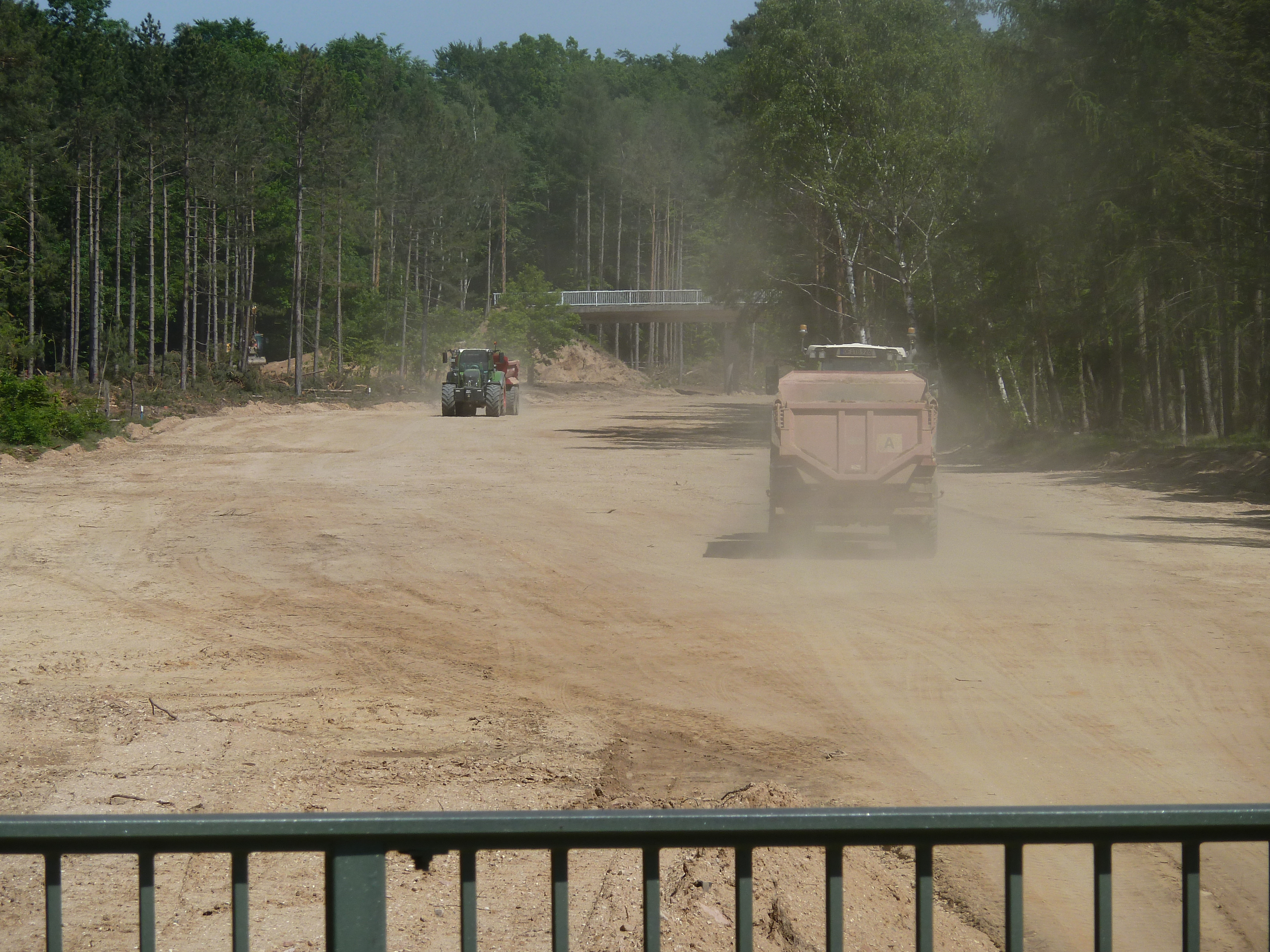 Dismantling of the original airport loop, May 2020.